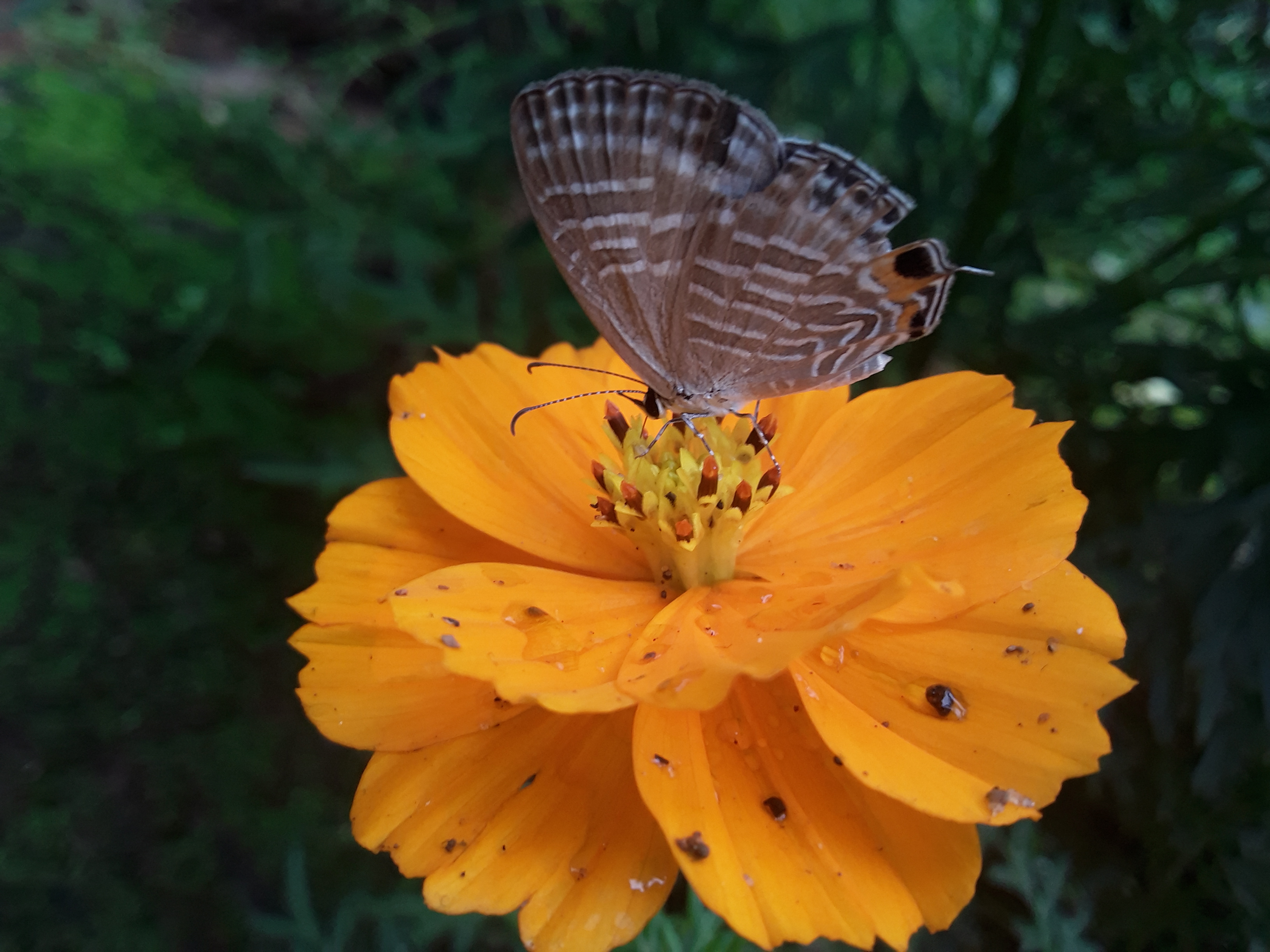 Flower